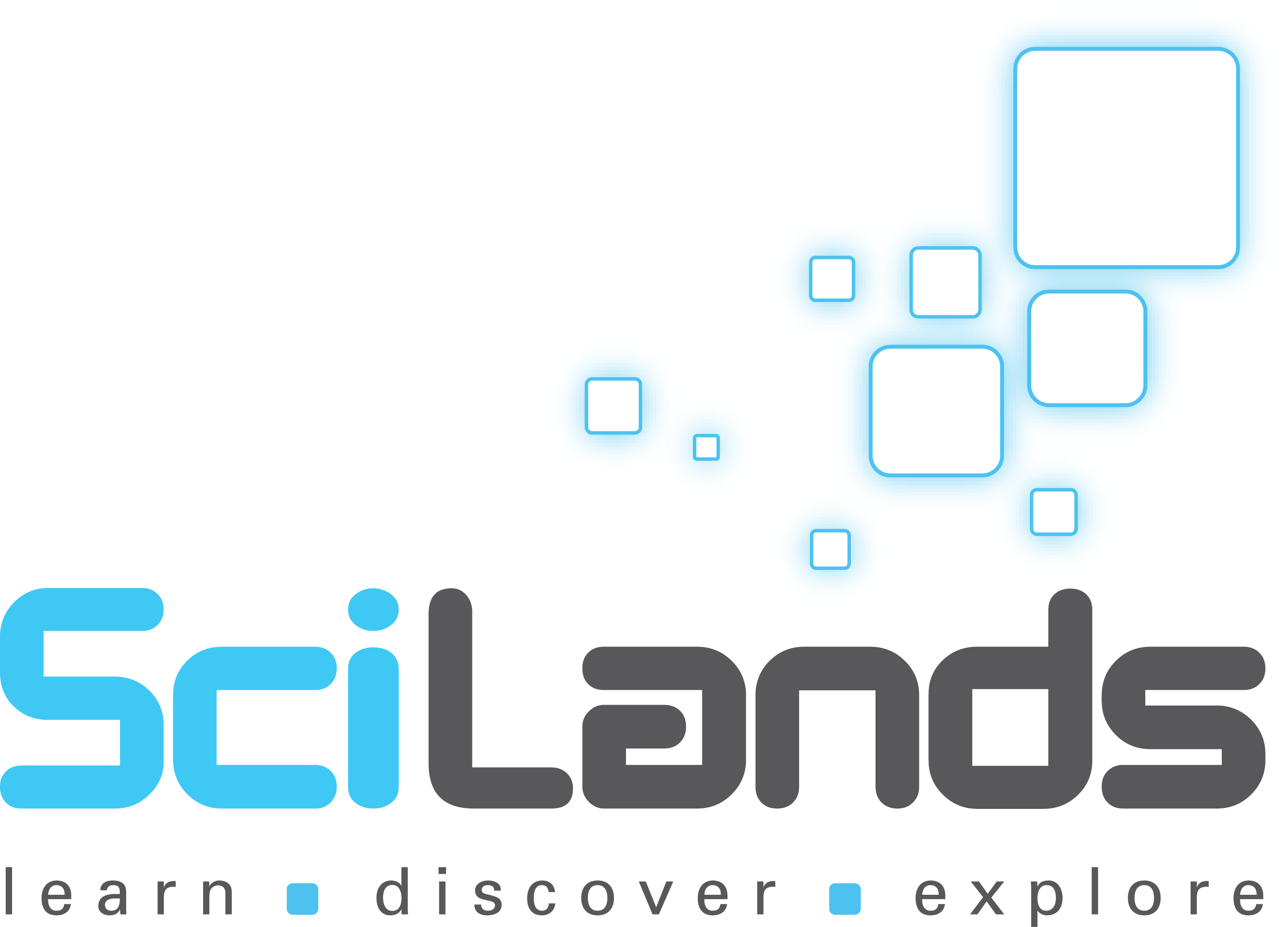 SciLands Logo